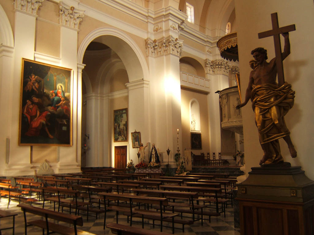 Inside of the cathedral Santa Maria della Neve in Nuoro